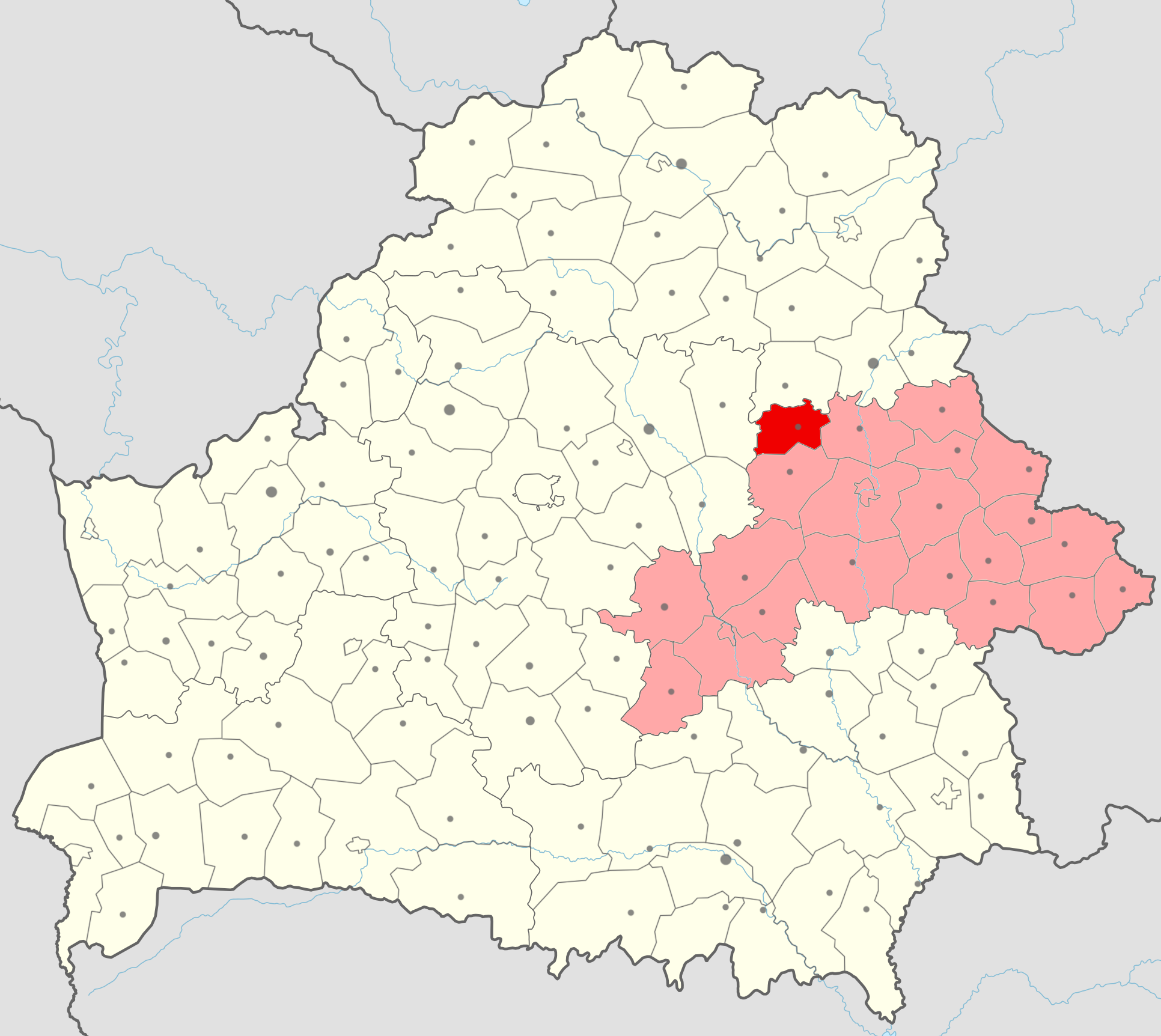 Location of Kruhlianski rajon (red) in Mahilioŭskaja voblasć (light red) in Belarus.